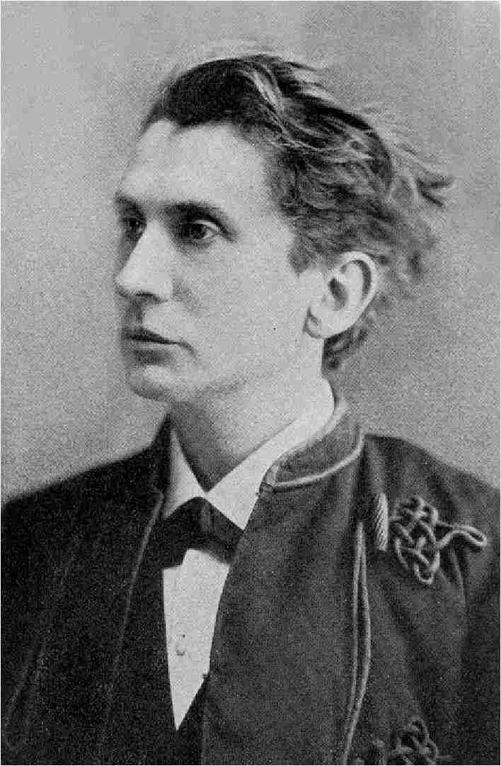 Leopold von Sacher-Masoch (1836–1895) - Austrian writer and journalist, who gained renown for his romantic stories of Galician life. The term masochism is derived from his name.